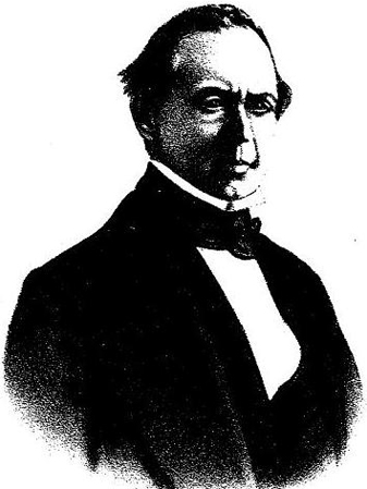 Job Mann, US Representative from Pennsylvania